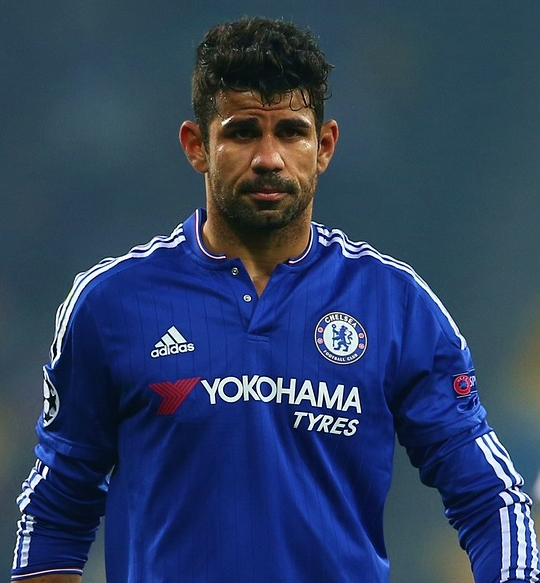 Diego Costa